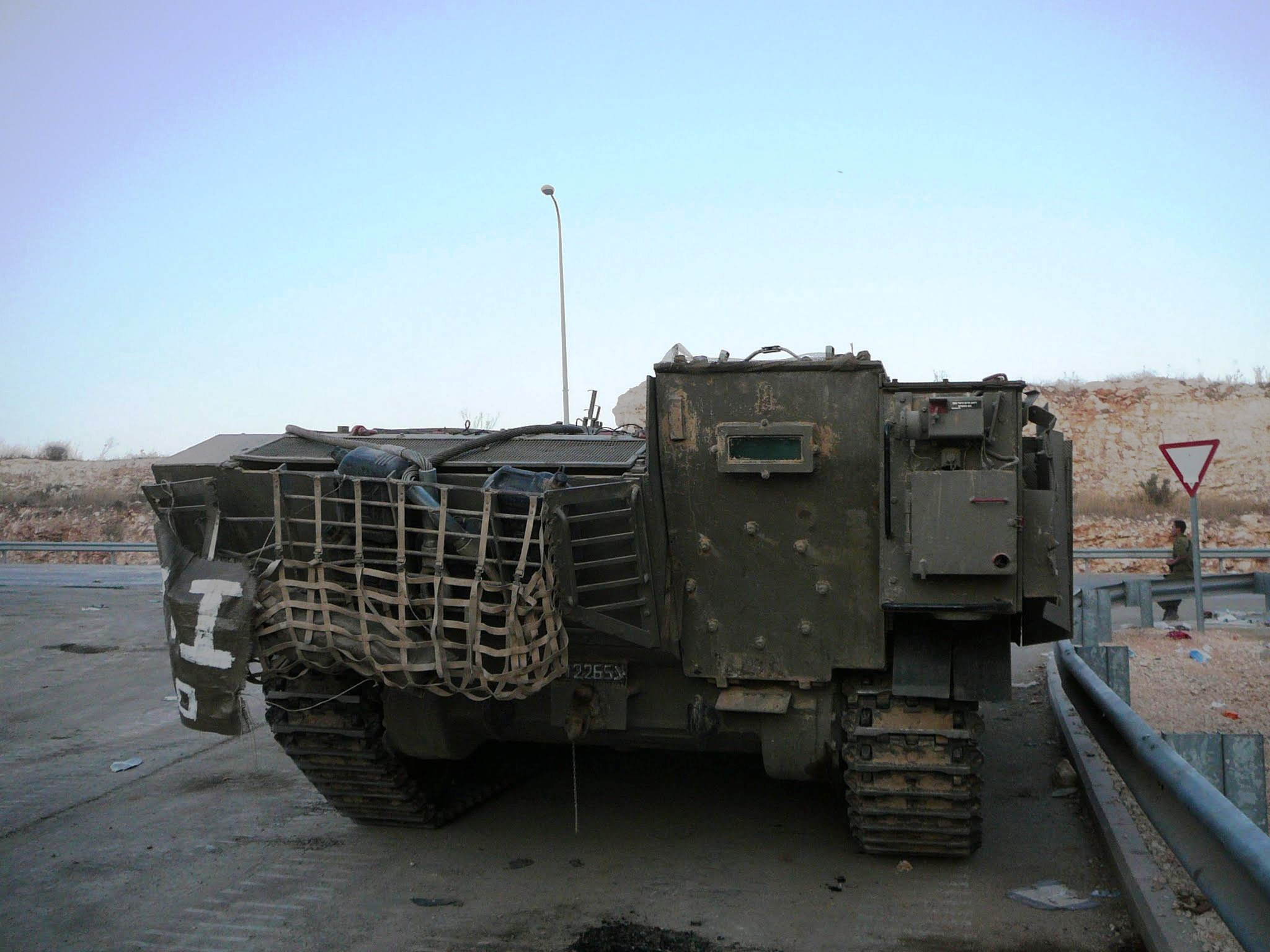 An Israeli Achzarit armored personnel carrier in 2011